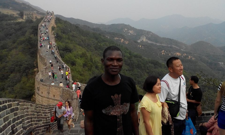 At the Badaling Great Wall, Beijing, China